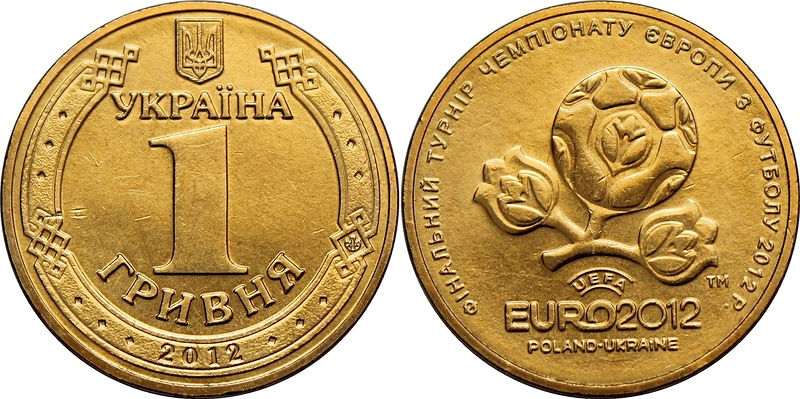 Commemorative coin 1 UAH, for UEFA EURO 2012 football championship.